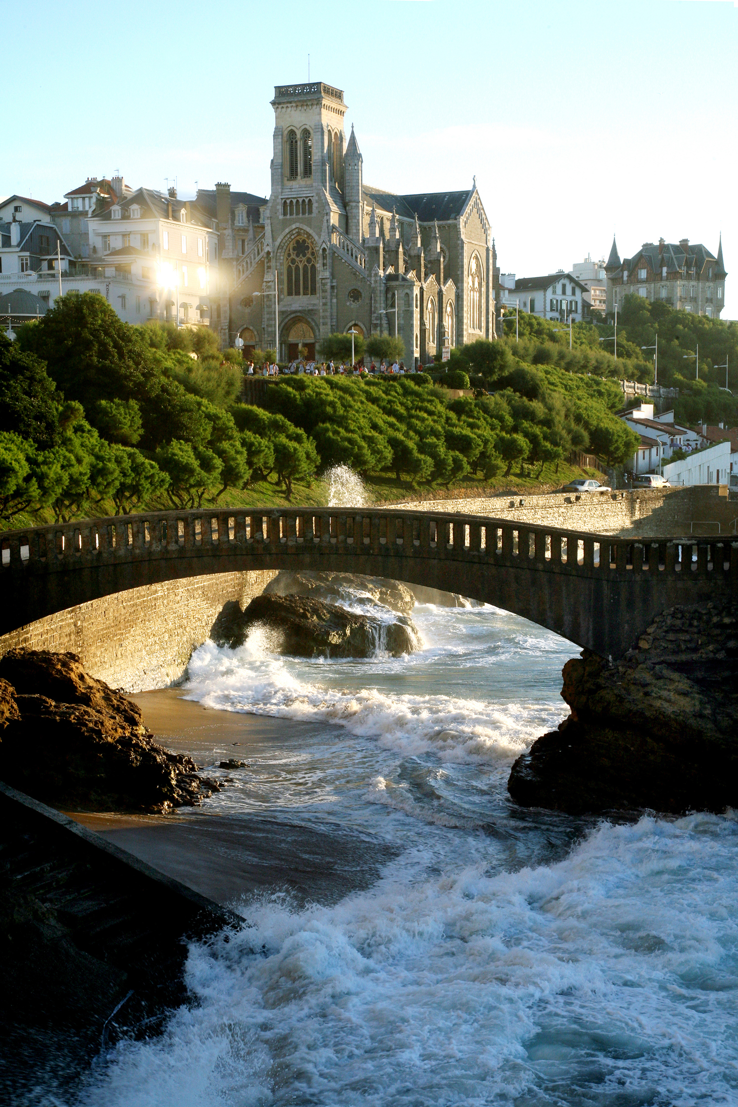 Church Sainte-Eugénie of Biarritz, France.